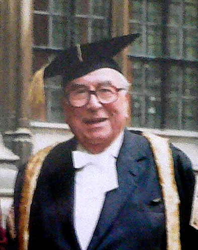 Roy Jenkins, the Chancellor of Oxford (right adult)